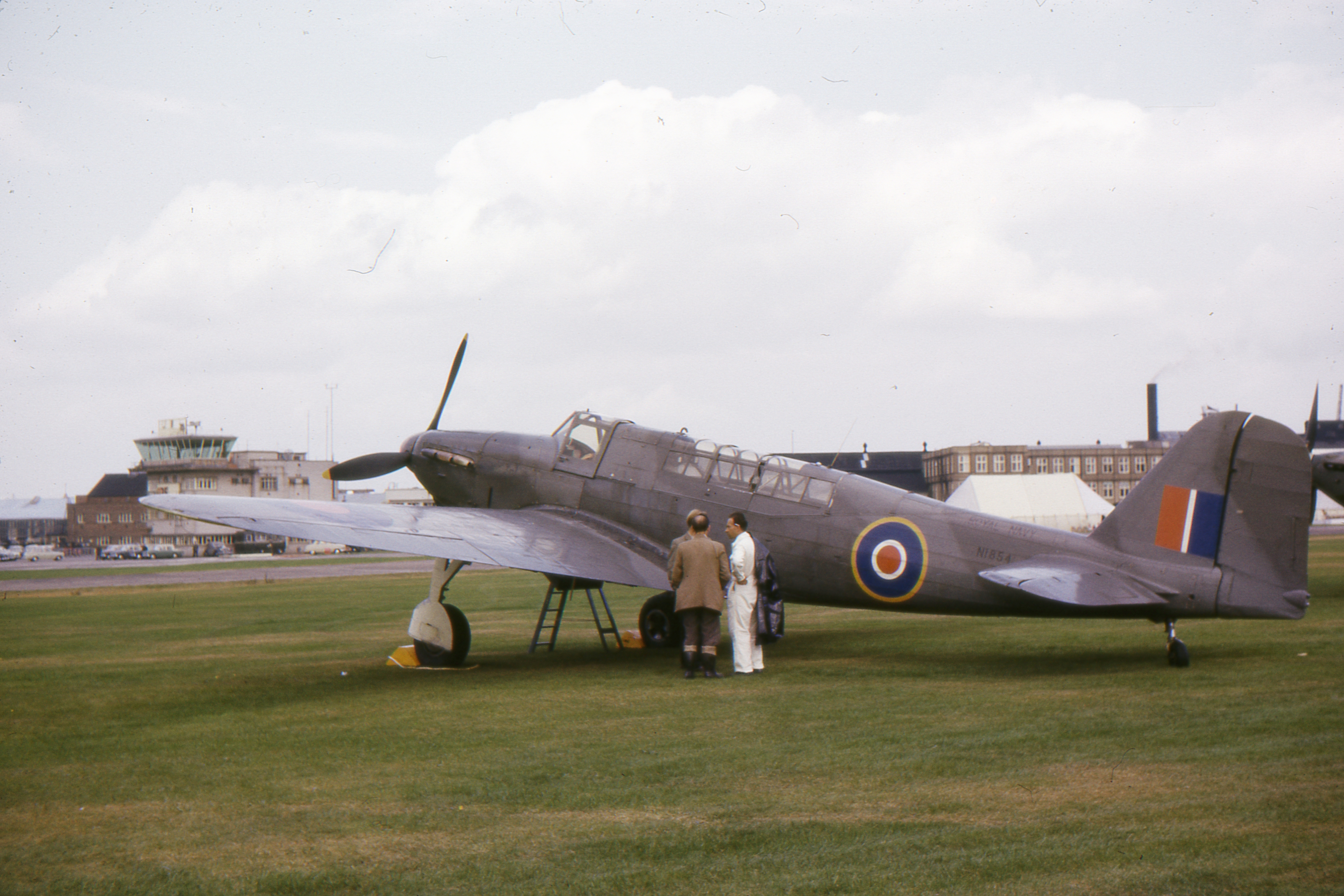 N1854, the first Fulmar to be flown (on 4 January 1940) was later modified to Mk II standard and then civilianised as Fairey's hack, G-AIBE. In June 1959 it reverted to Service markings and is pictured here at Farnborough at the SBAC show on 8 September 1962. Its last flight was three month later on 18 December 1962. It is now in the FAA museum at Yeovilton and is the only surviving airframe.